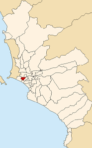 Map of Lima highlighting the Pueblo Libre district in Lima.